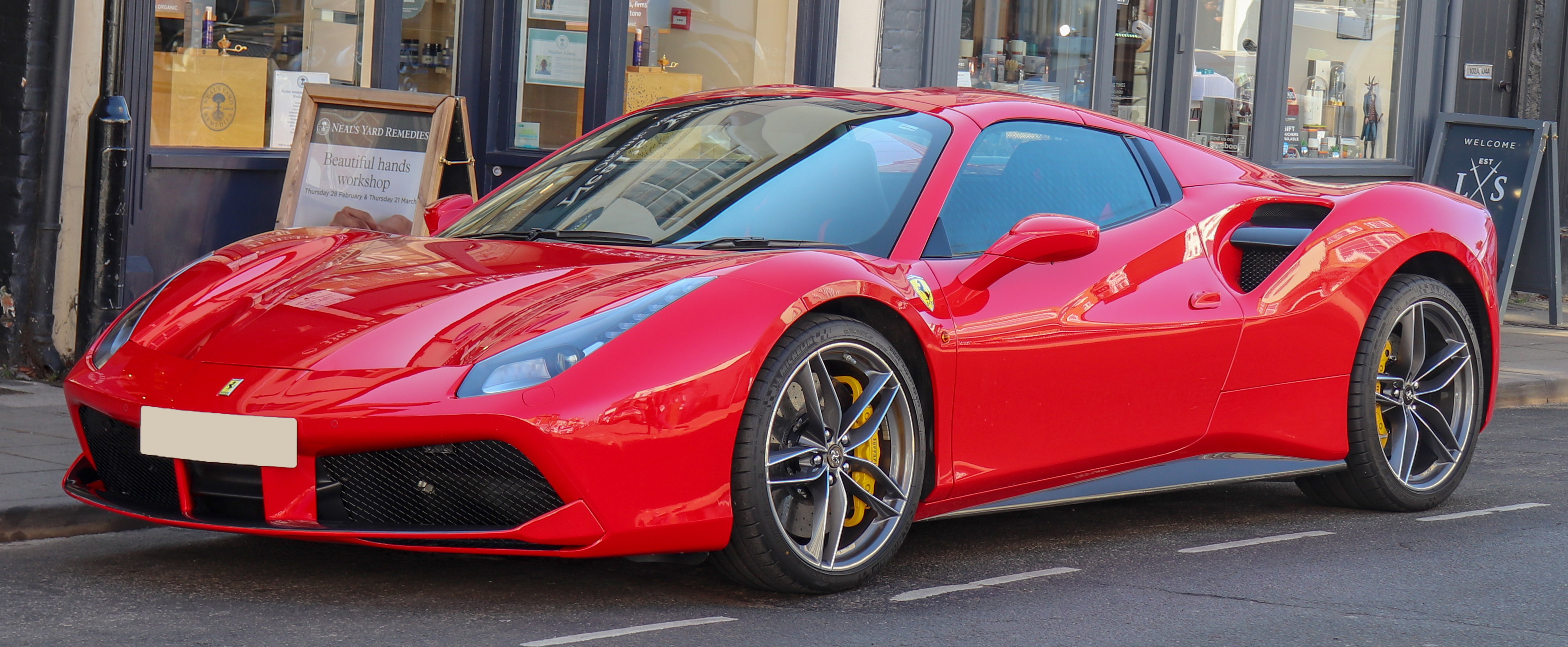 2018 Ferrari 488 GTB Spider S-A 3.9 Front Taken in Leamington Spa